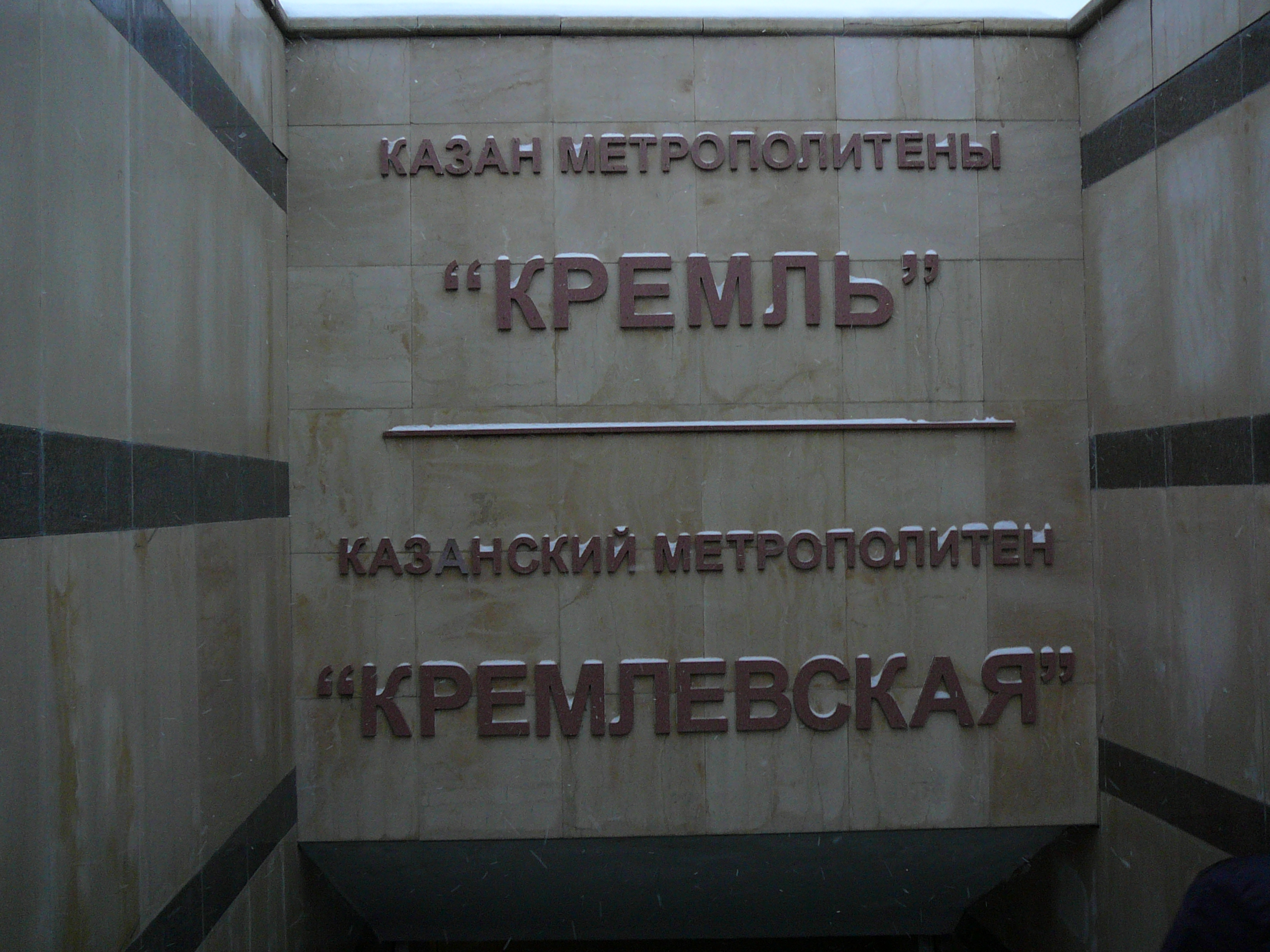 Log in to the station "Kremlin" Kazan Metro